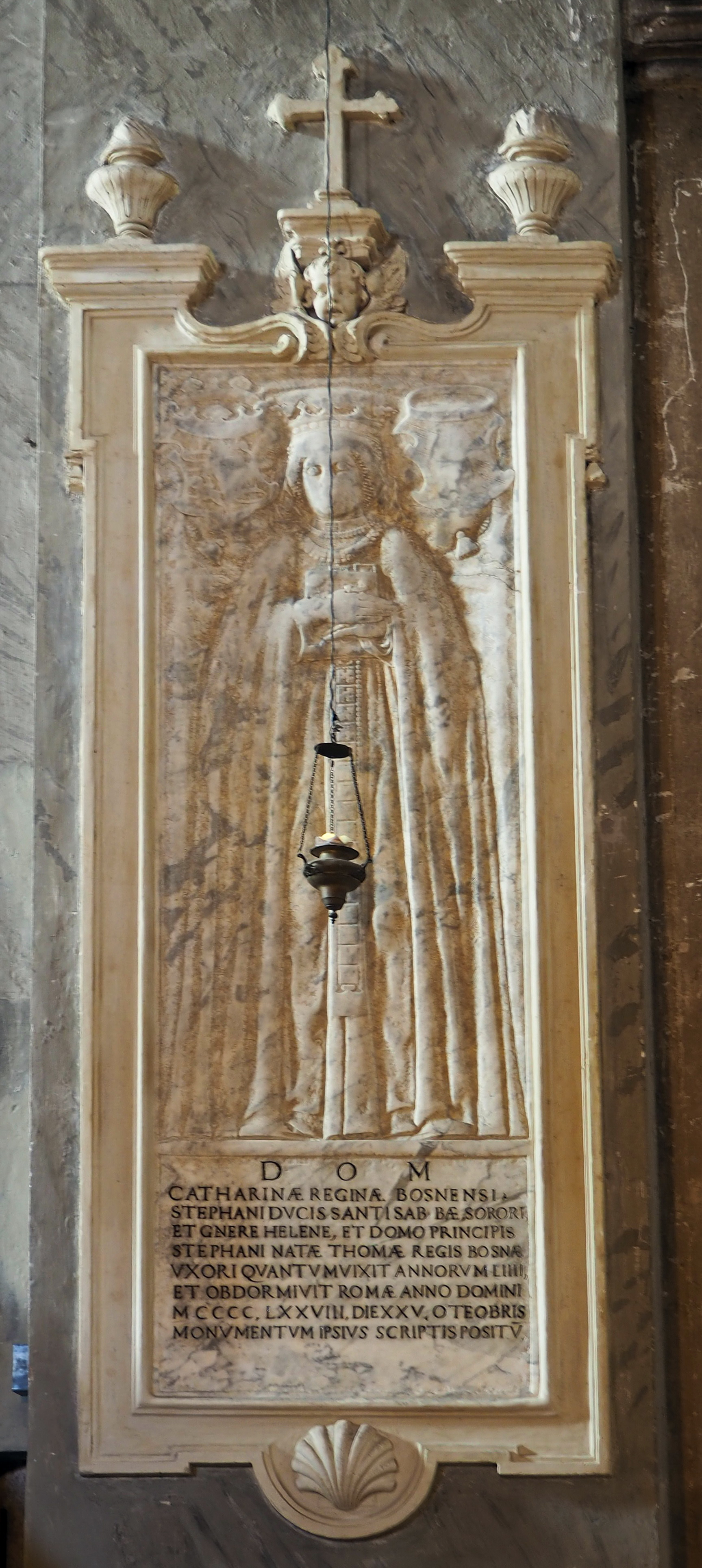 Santa Maria in Aracoeli (Rome); Tomb of Queen Catherine of Bosnia